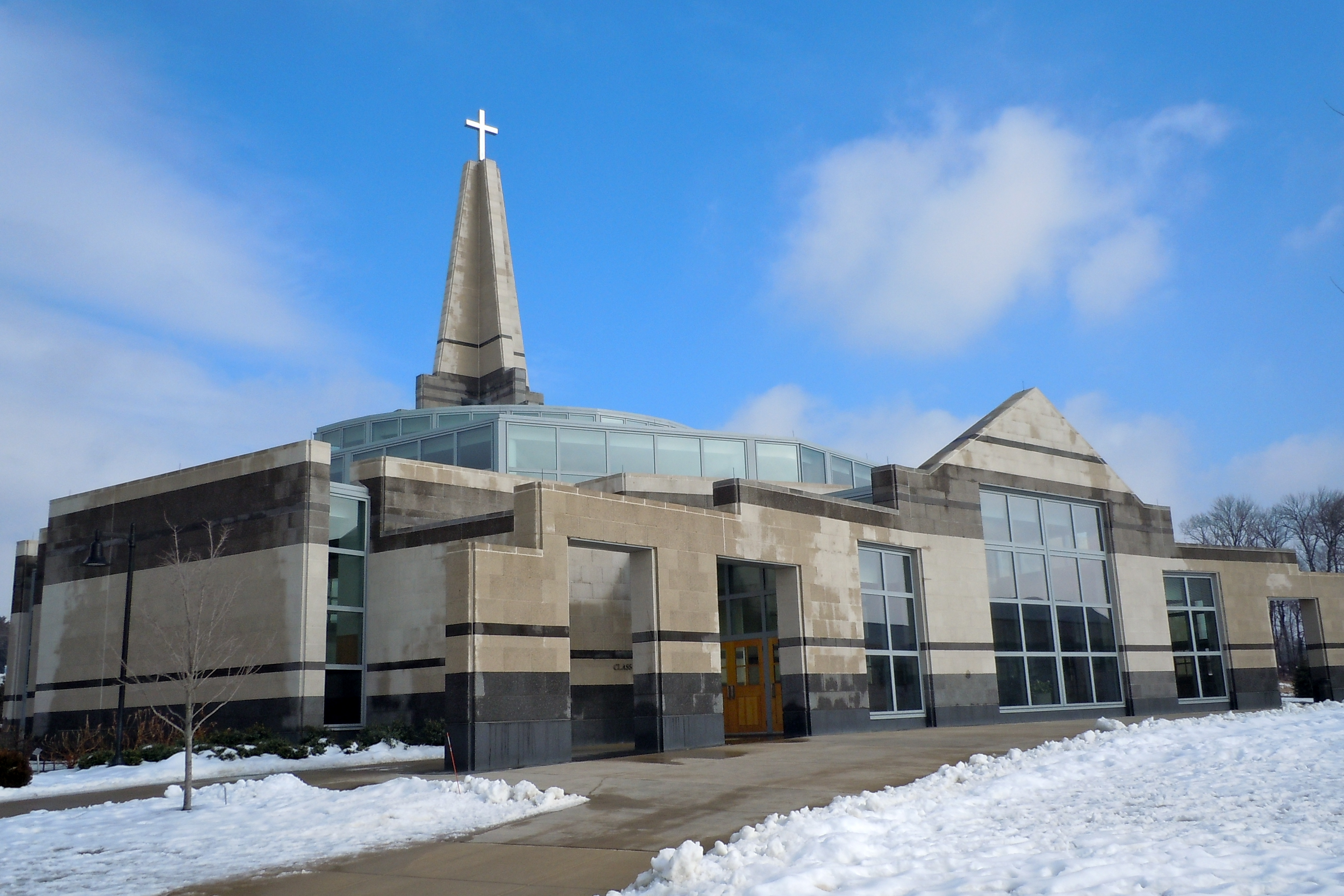 Chapel at the Episcopal Academy, exterior, near Newtown Square, Pennsylvania. Architect Robert Venturi, an alumnus of the Academy. Coords 40.00651,-75.4233